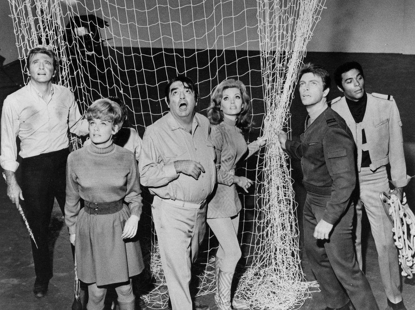 Publicity photo of the cast of Land of the Giants television program. Shown left to right: Don Matheson, Heather Young, Kurt Kasznar, Deanna Lund, Gary Conway, and Don Marshall.